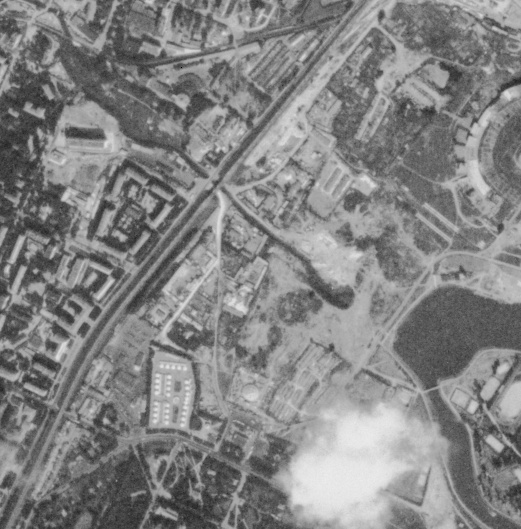 Site before construction of Izmailovo hotel complex. Part of Corona satellite imagery